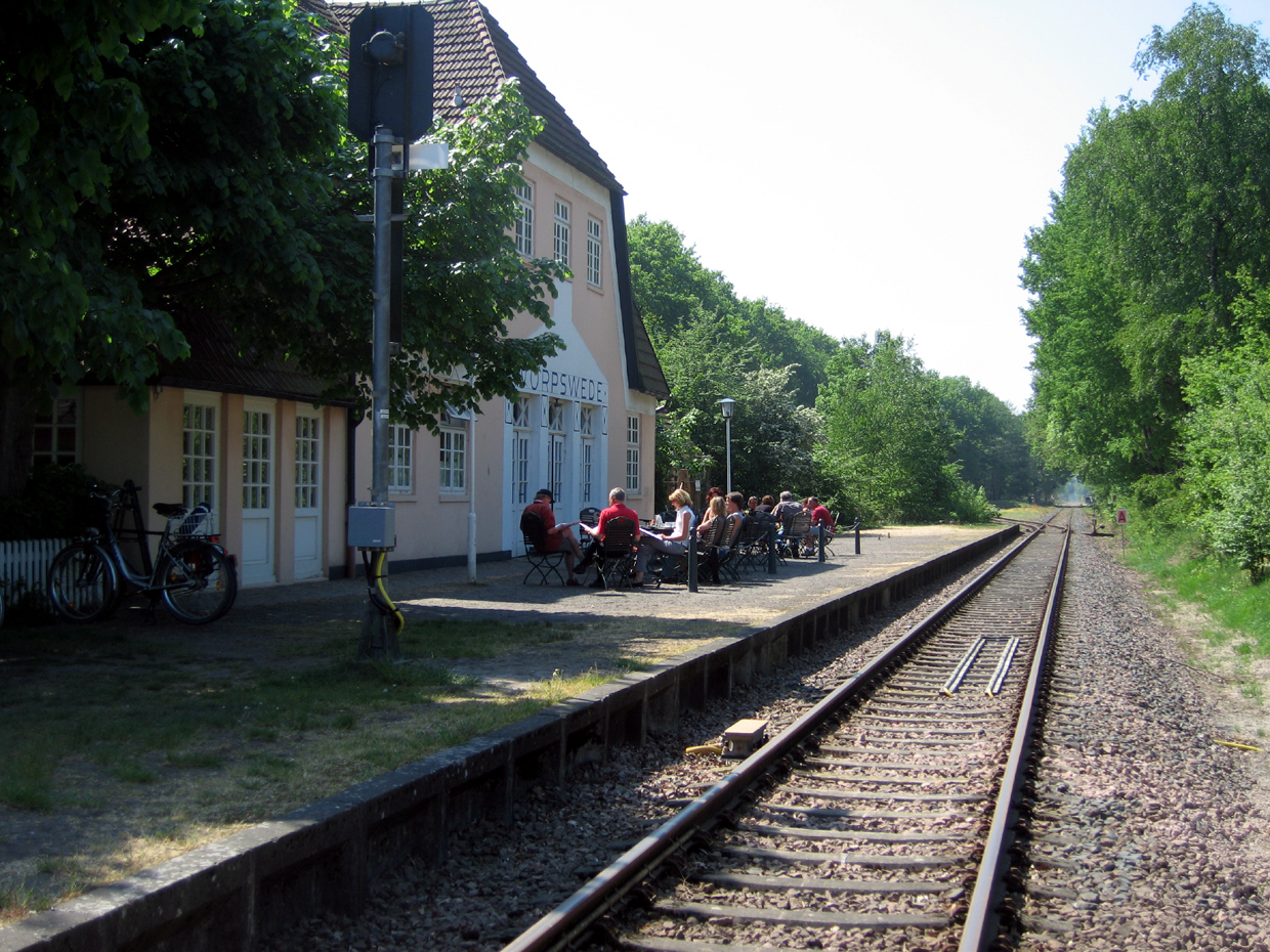 Worpswede train station.